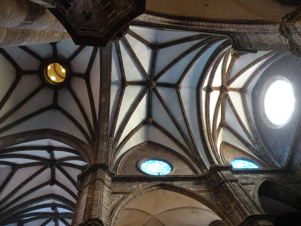 Imagen del interior del santuario de guadalupe, mexico. Hloutweg